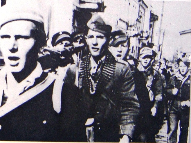 Partisans of I Aegean Macedonian Brigade, formed in Bitola in November 1944. This media file is produced by Wikipedian in Residence in Category:Wikipedian in Residence at DARM in 2016.